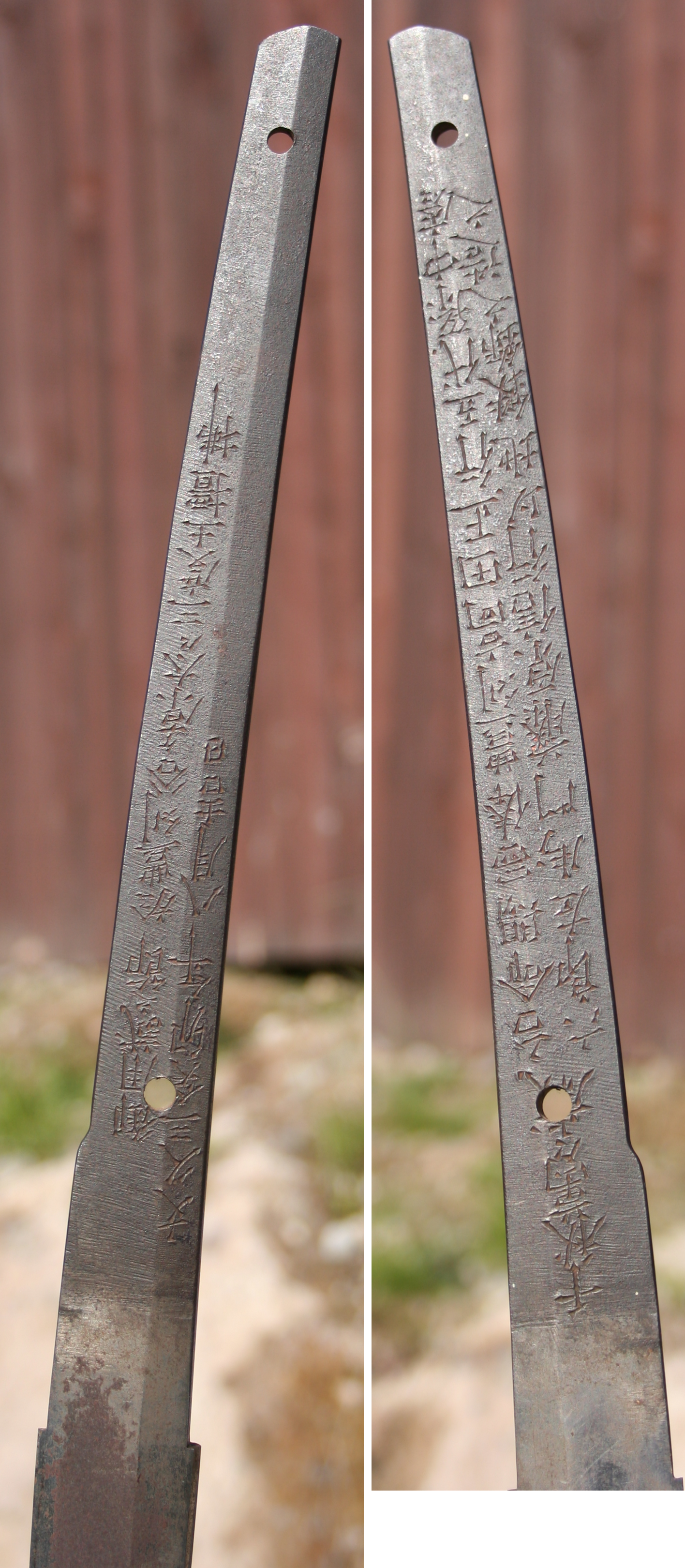 The tang Nakago of a katana made sometime before the end of the samurai. There is signature mei and two holes mekugi-ana for pegs mekugi which attach the nakago to a handle tsuka.